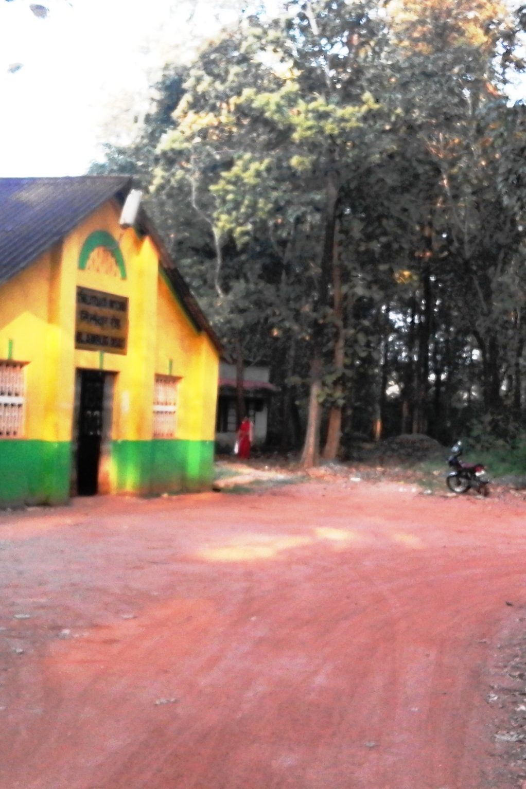 Nilambur, Kerala, India.